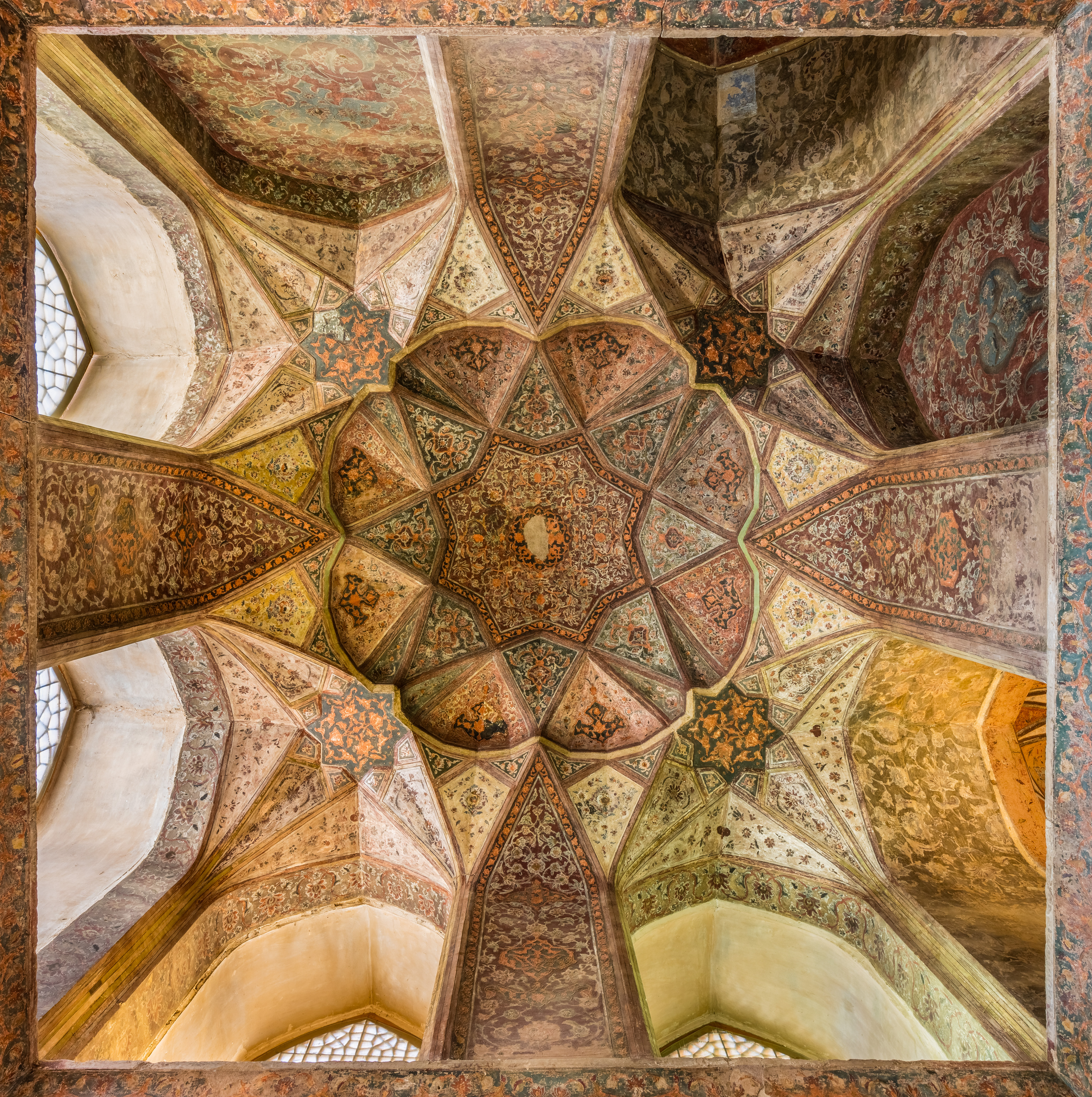 Ceiling in one of the rooms of Hasht Behesht, Isfahan, Iran. The palace, built in 1669, and which name means "Eight Heavens" is the only one left today out of forty mansions that existed during the rule of Safavids.